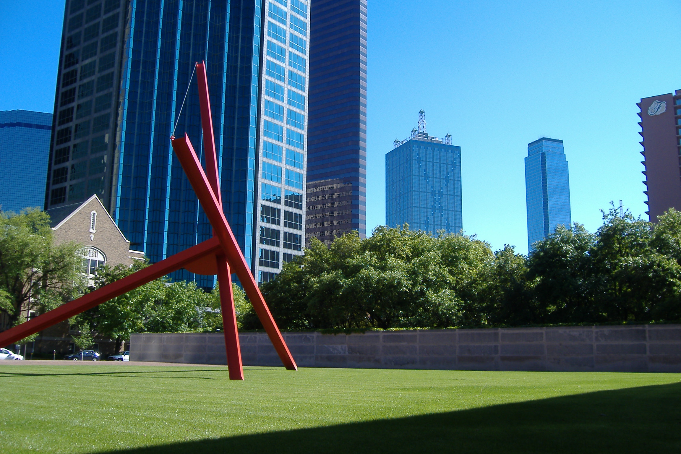 Ave, by Marc DeSuvero at the Dallas Museum of Art.